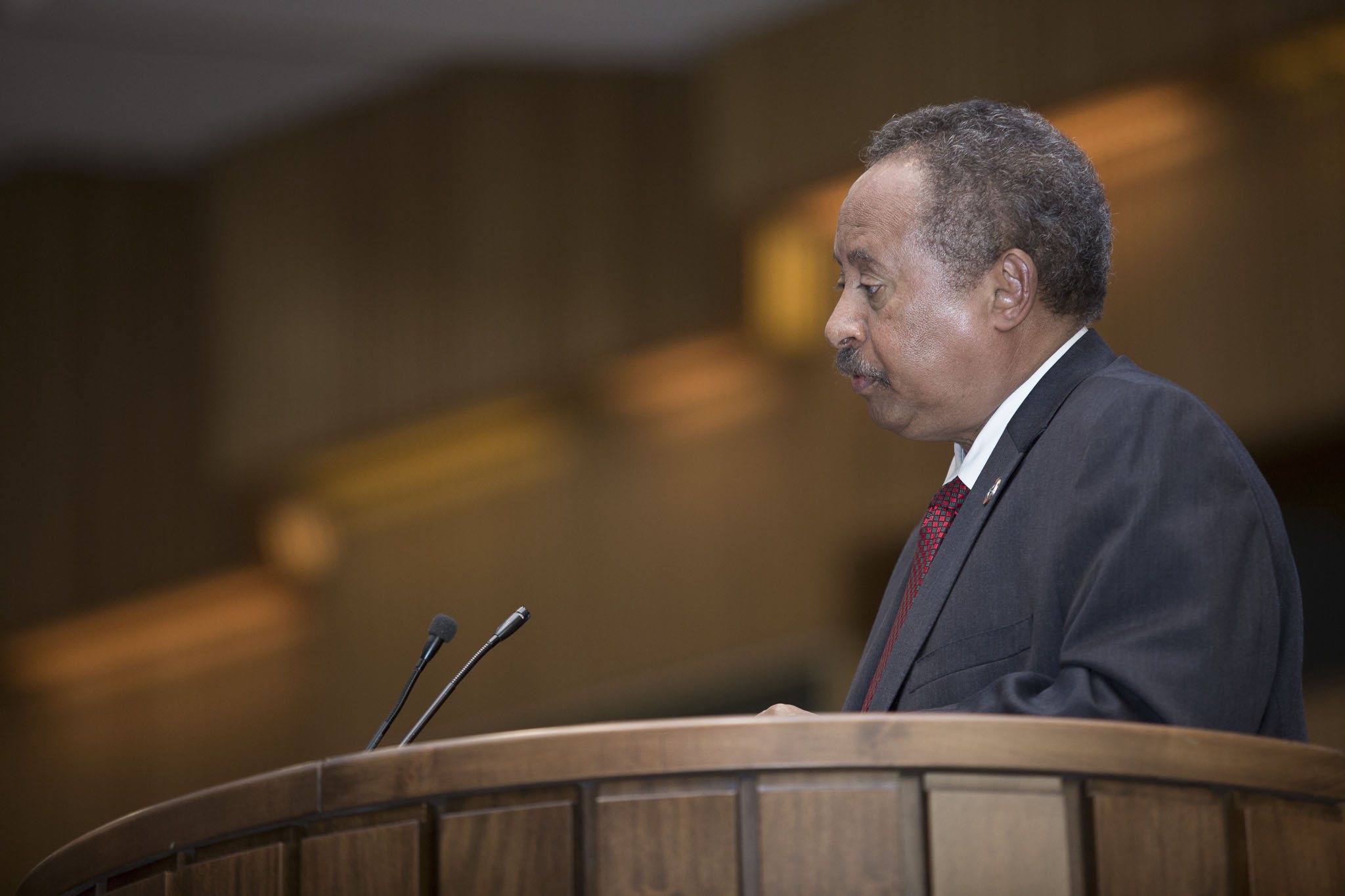 Abdalla Hamdok at the World Hydropower Congress 2017 organised by the International Hydropower Association in May 2017